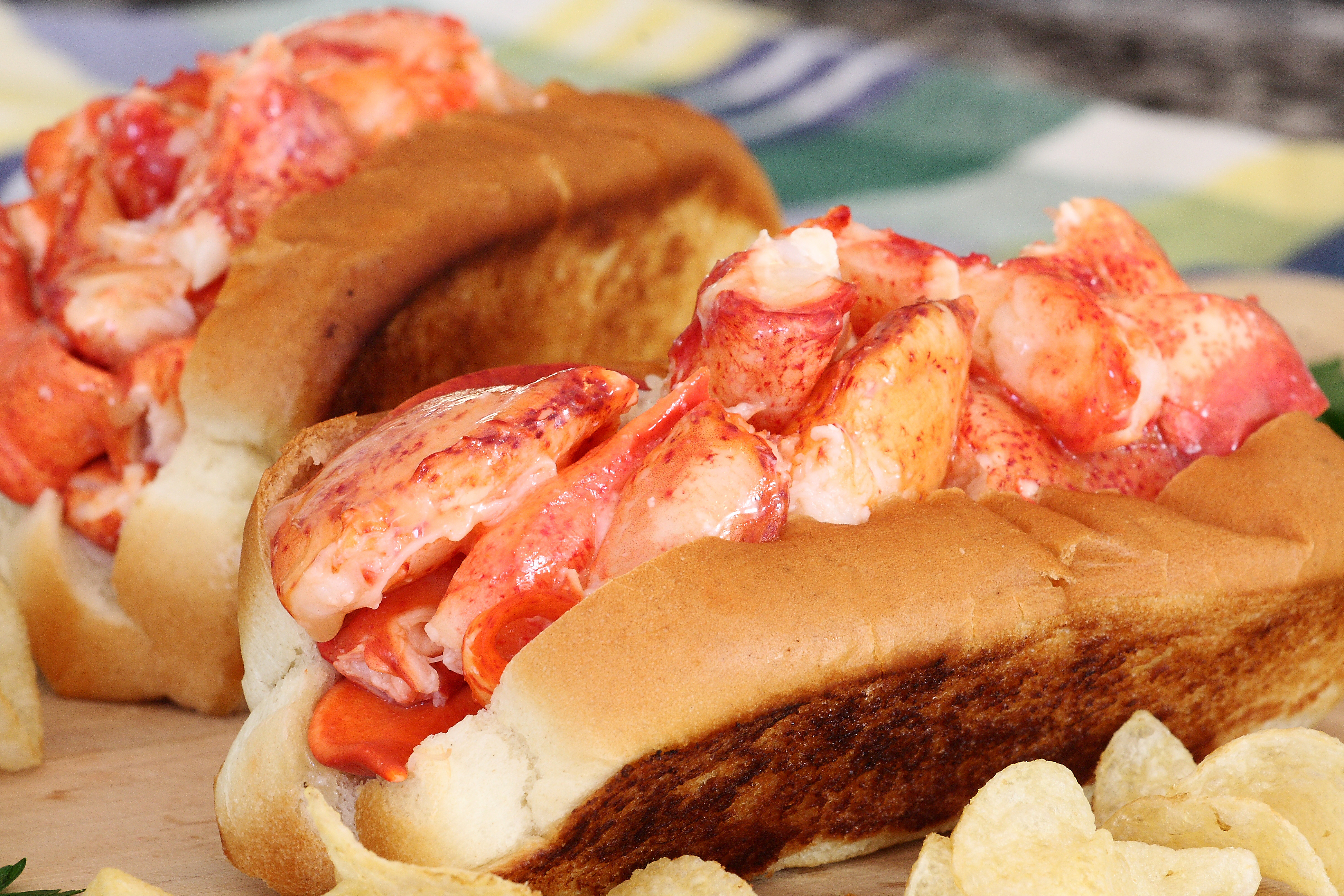 Lobster roll from Cousins Maine Lobster as posted to Flickr by user in 2012.